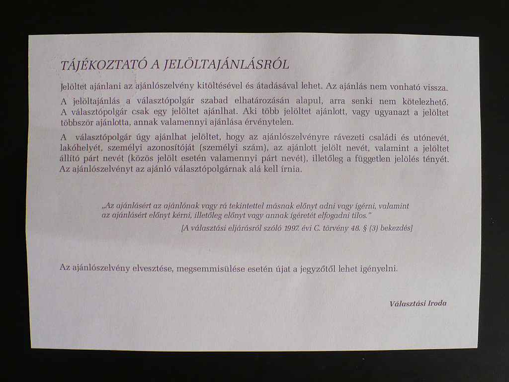 Proposal coupon for the Hungarian parliamentary elections of 2010, page 2